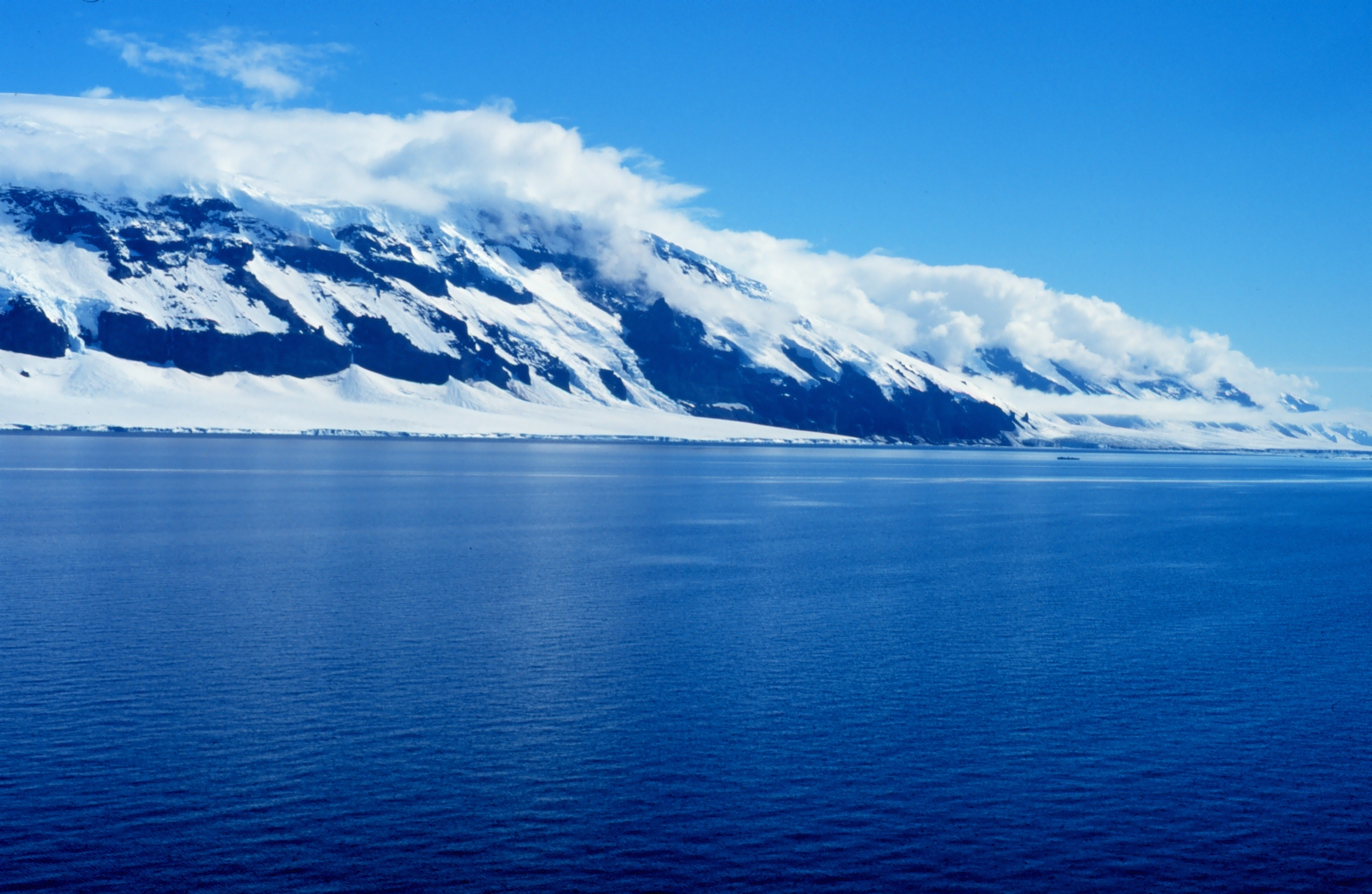 Coulman Island in the Ross Sea with clouds forming at the top edge as cold air spills down off the island top.